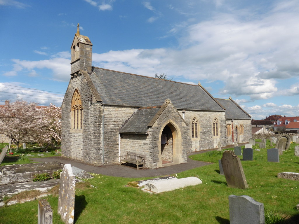 Church of St Edward, Chilton Polden